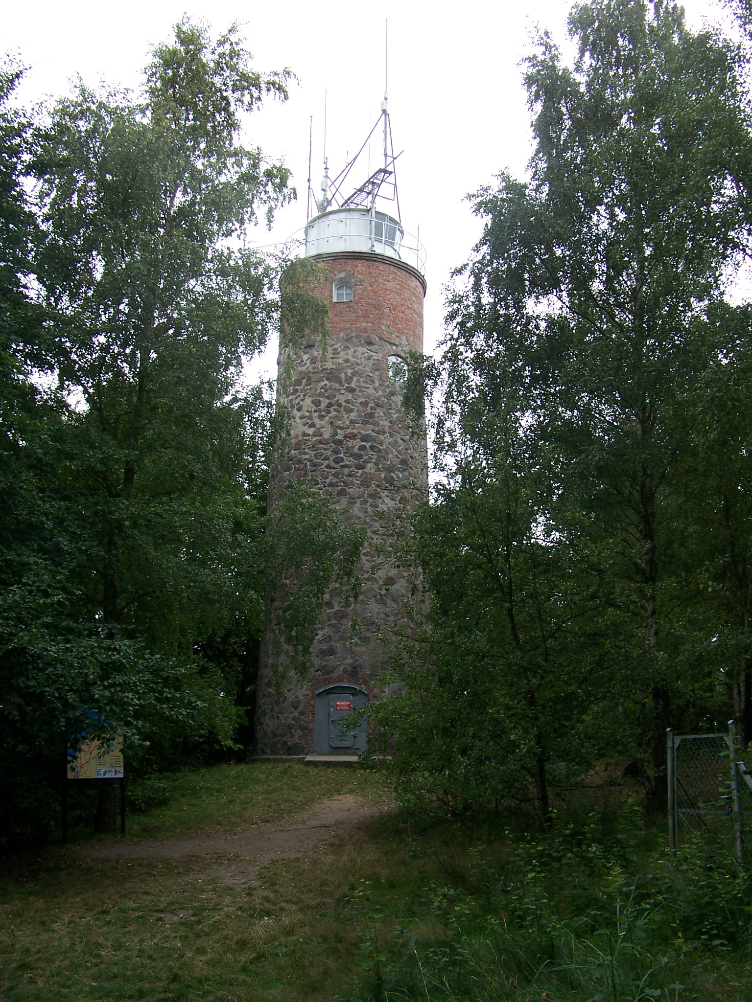 Kikut Lighthouse, Poland